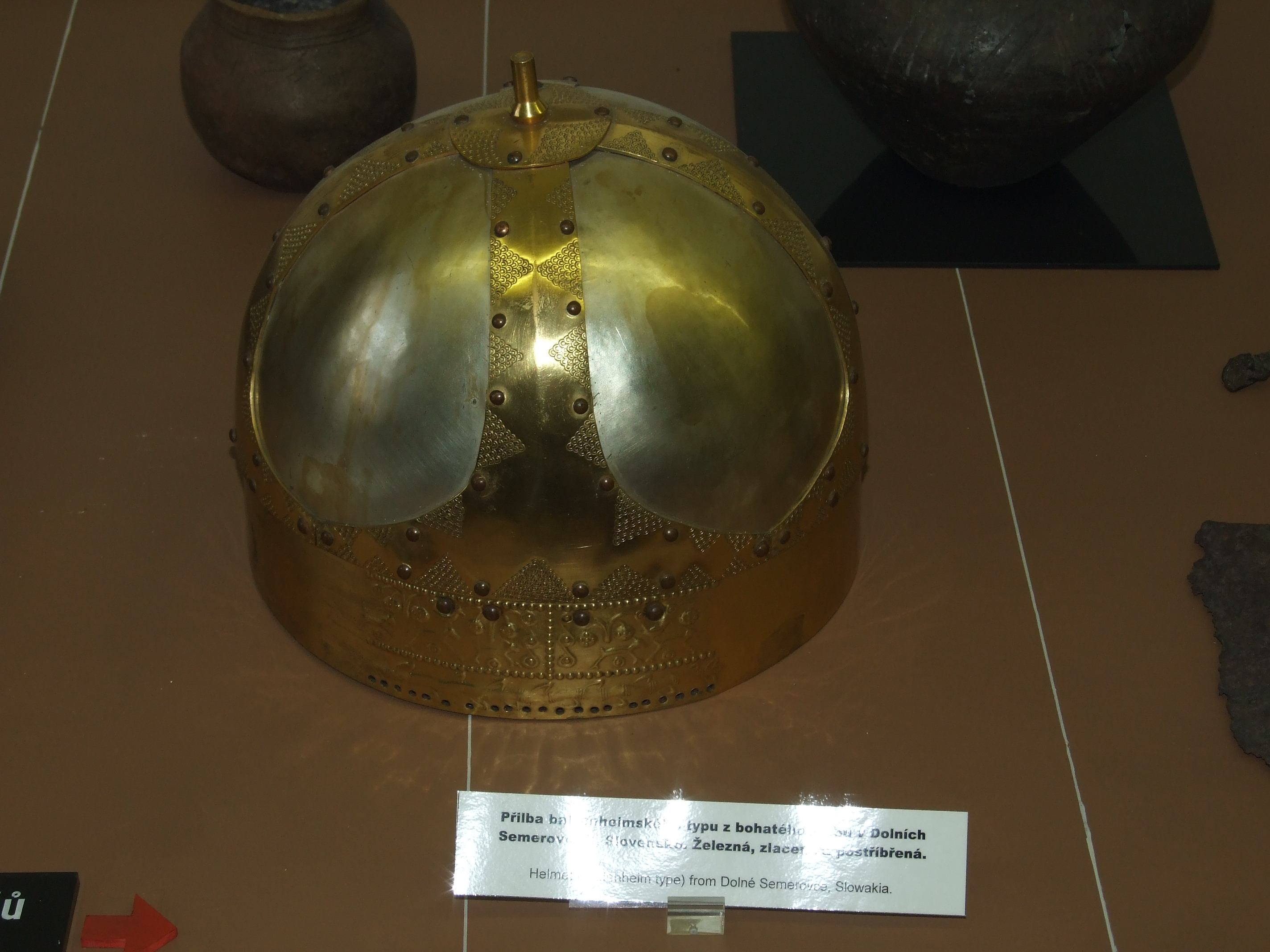 Prehistoric Times of Bohemia, Moravia and Slovakia, National Museum in Prague. Helmet (Baldenheim type) from Dolné Semerovce, Slovakia. Migration Period; 6th century AD.